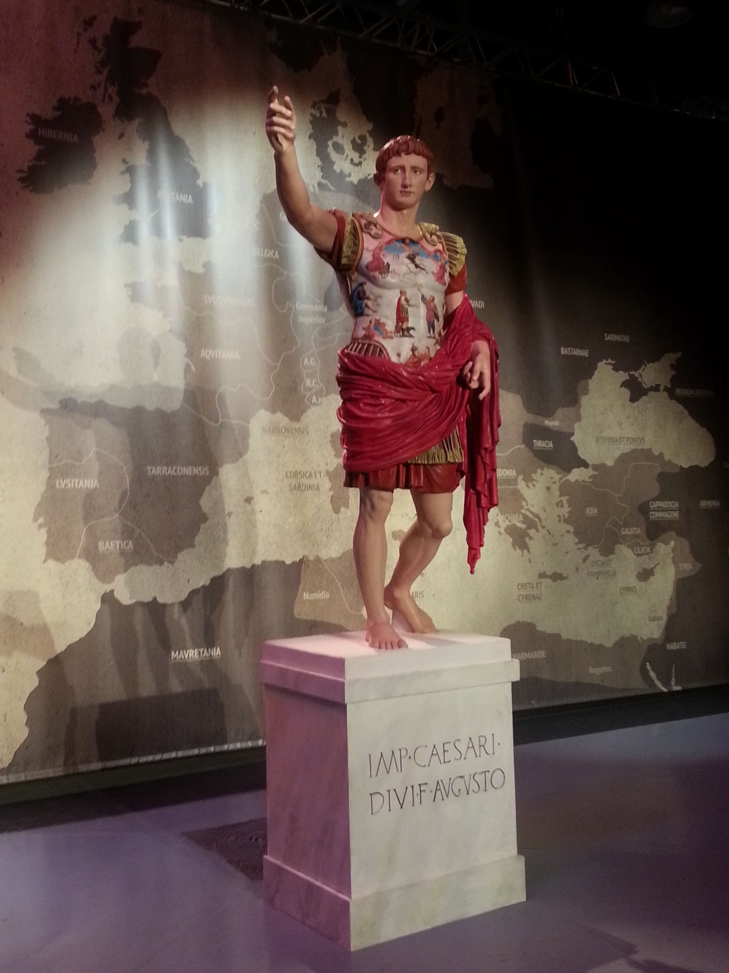 Statue of Augustus of Prima Porta, with pigments reconstructed for the Tarraco Viva 2014 Festival